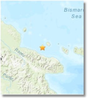 M 6.5 - eastern New Guinea region, Papua New Guinea 2010-08-04 07:15:33 (UTC)